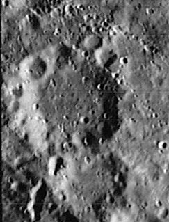 Proctor lunar crater - Lunar Orbiter IV image LOIV 112 H2